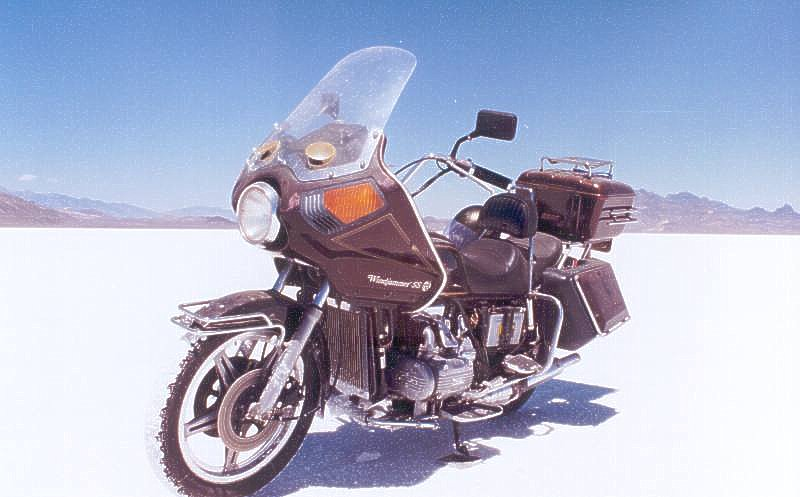 1979 GL1000 Honda Goldwing on the Bonneville Salt Flats